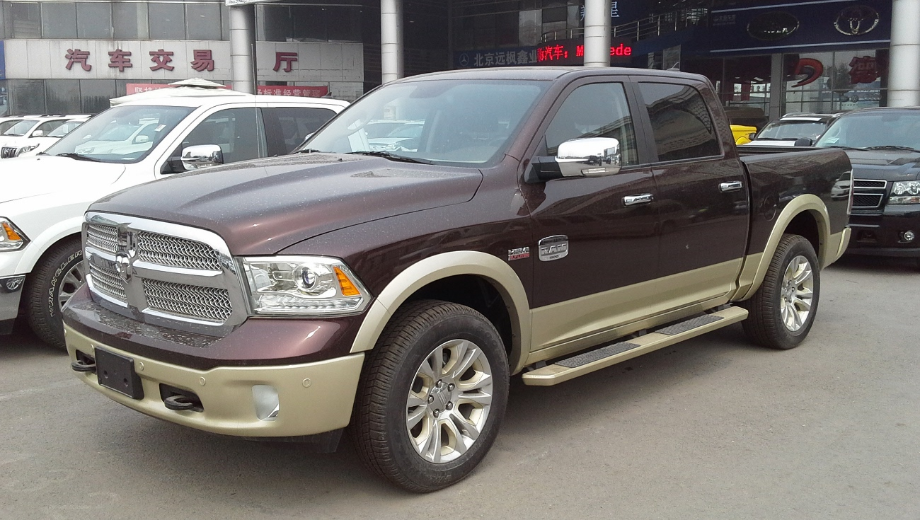 Ram 1500 DS Crew Cab facelift photographed in Beijing, China.